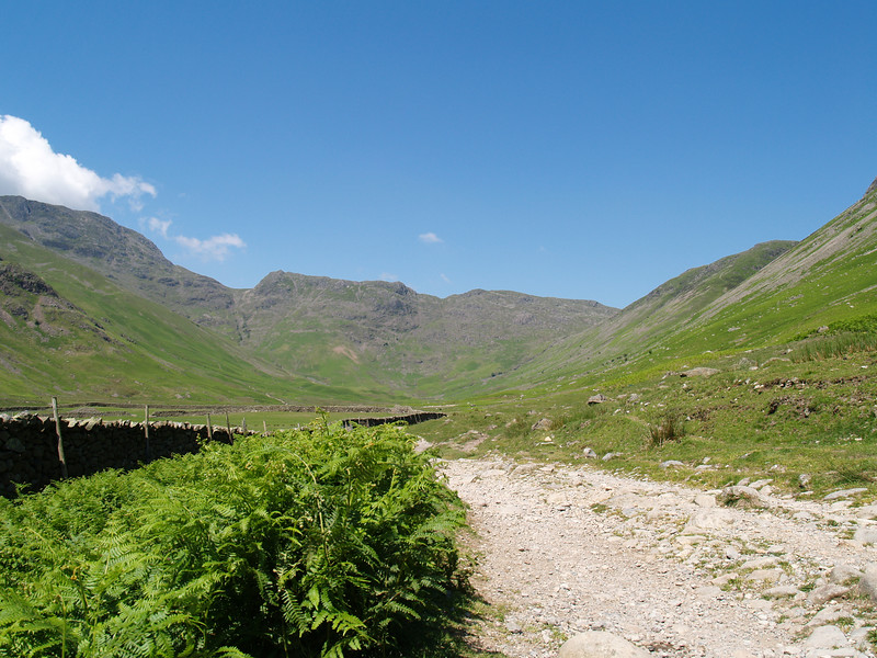 Cumbria Way passes through Mickleden